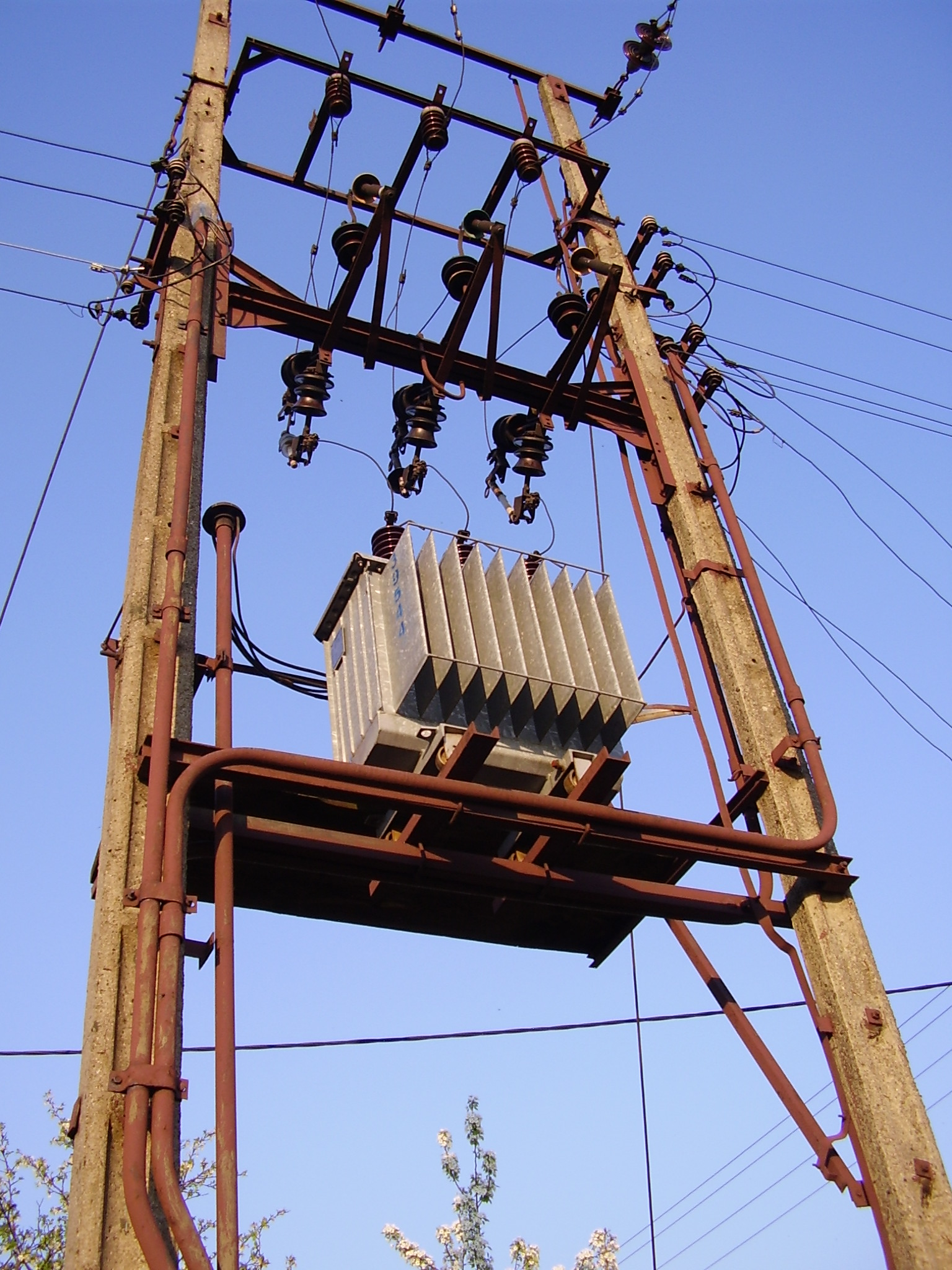 Three phase power distribution transformer of type used in Europe, in an orchard